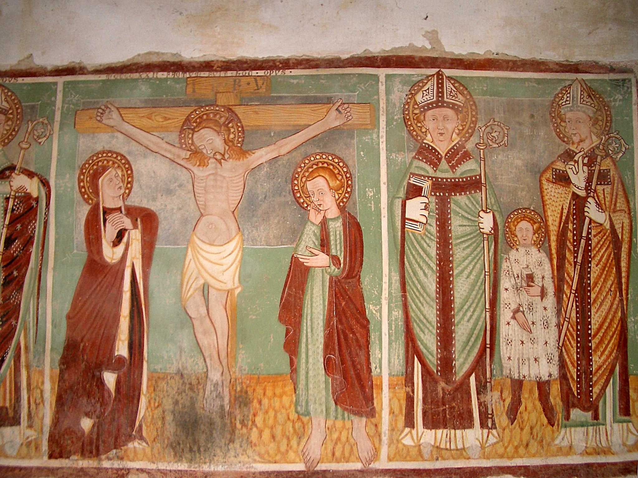 Unknown painter, Crucifixion, the child-martyr Quiricus between St. Nicholas and St. Albino, fresco, 1422, Bolzano Novarese, Chiesa di San Martino di Engrevo